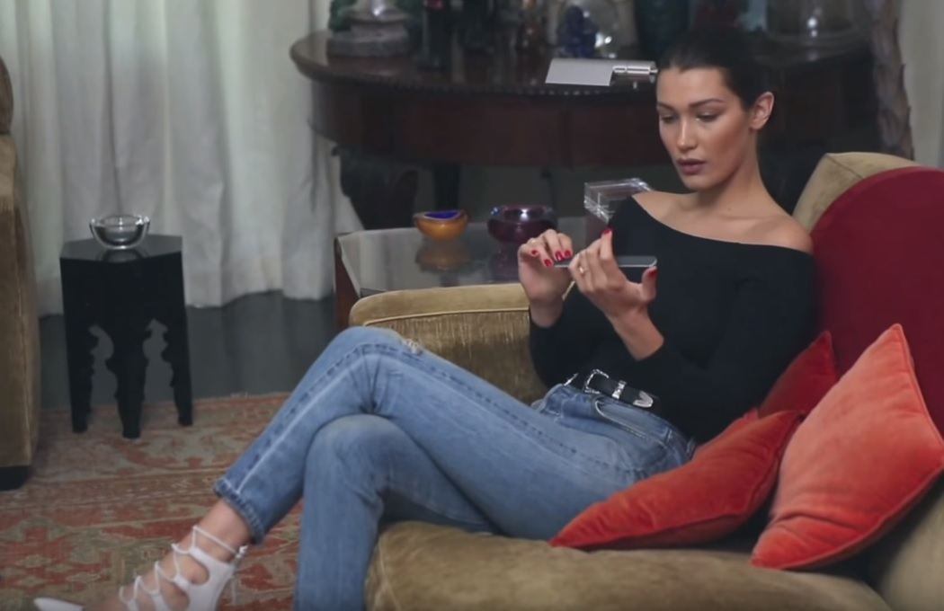 American model Bella Hadid for day 15 of LOVE Magazine Advent 2015, filmed by Doug Inglish.